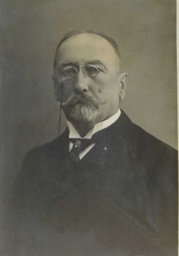 Ivan Hribar (1851-1941)